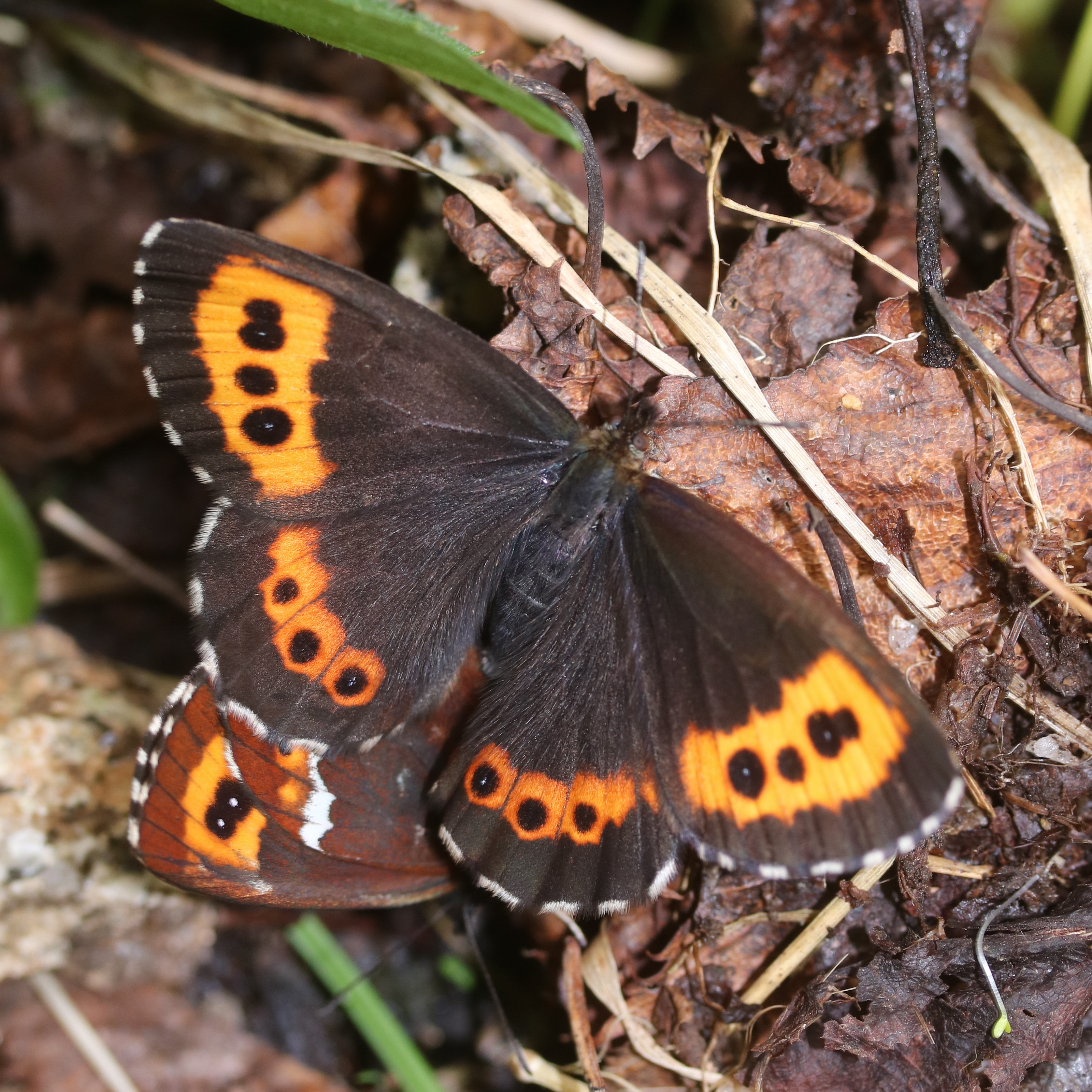 Erebia ligea takanonis mating in Mount Kisokoma, Kiso Mountains, Kiso Town, Nagano Prefecture, Japan.